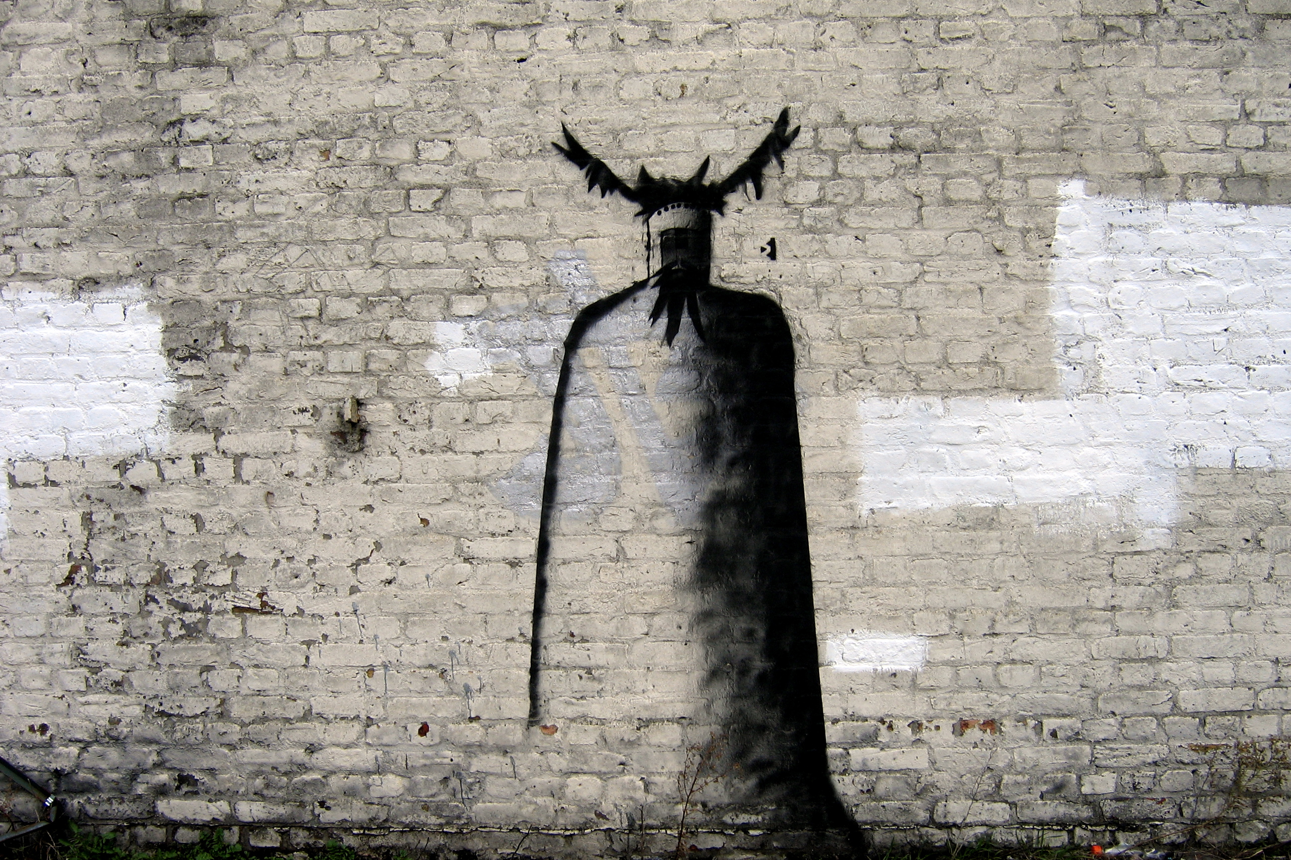 graffiti, Ni, knight, Monty Python